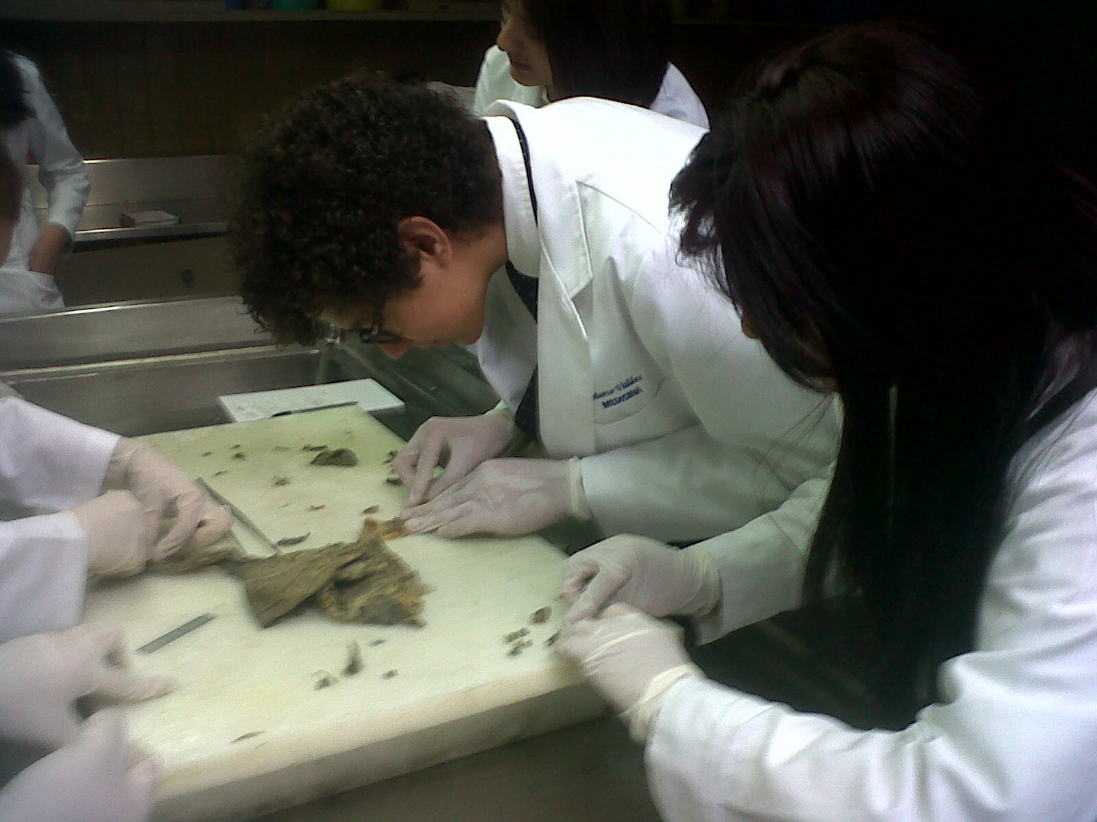 Medical students (EMIS) getting samples from a human stomach for future histological studies. 2012 at Instituto Nacional de Cardiologia in Mexico